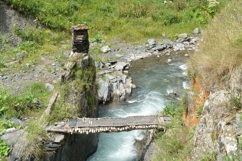 Georgia, Khevsureti